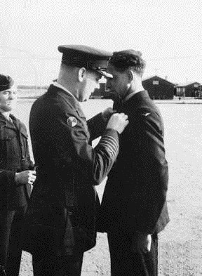 Uranquinty, NSW. Leading Aircraftman L. V. (Len) Waters receiving his "wings" during the graduation parade of No. 44 Course at No. 5 Service Flying Training School. Leonard Waters was the only aboriginal pilot to serve in the RAAF. After completing his flying training he flew 95 operational sorties with No. 78 Squadron RAAF. He was eventually promoted to Warrant Officer and was discharged from the RAAF 1946-01-18.